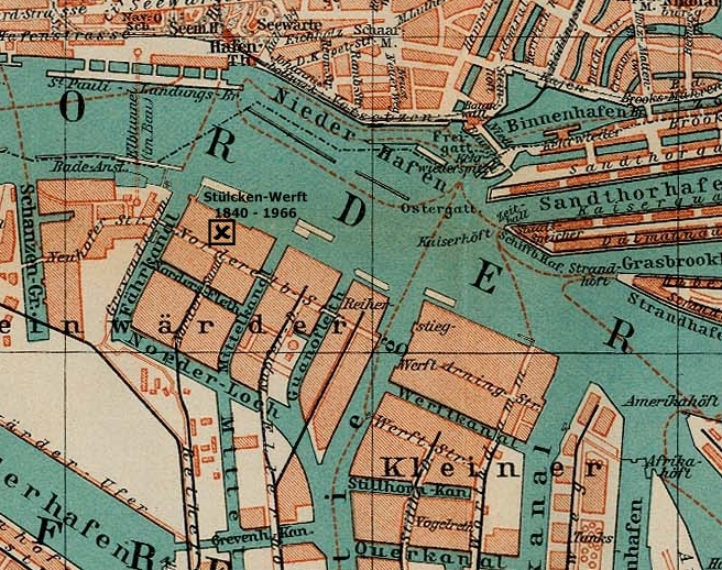 Map of Hamburg and Altona, Germany, 1910